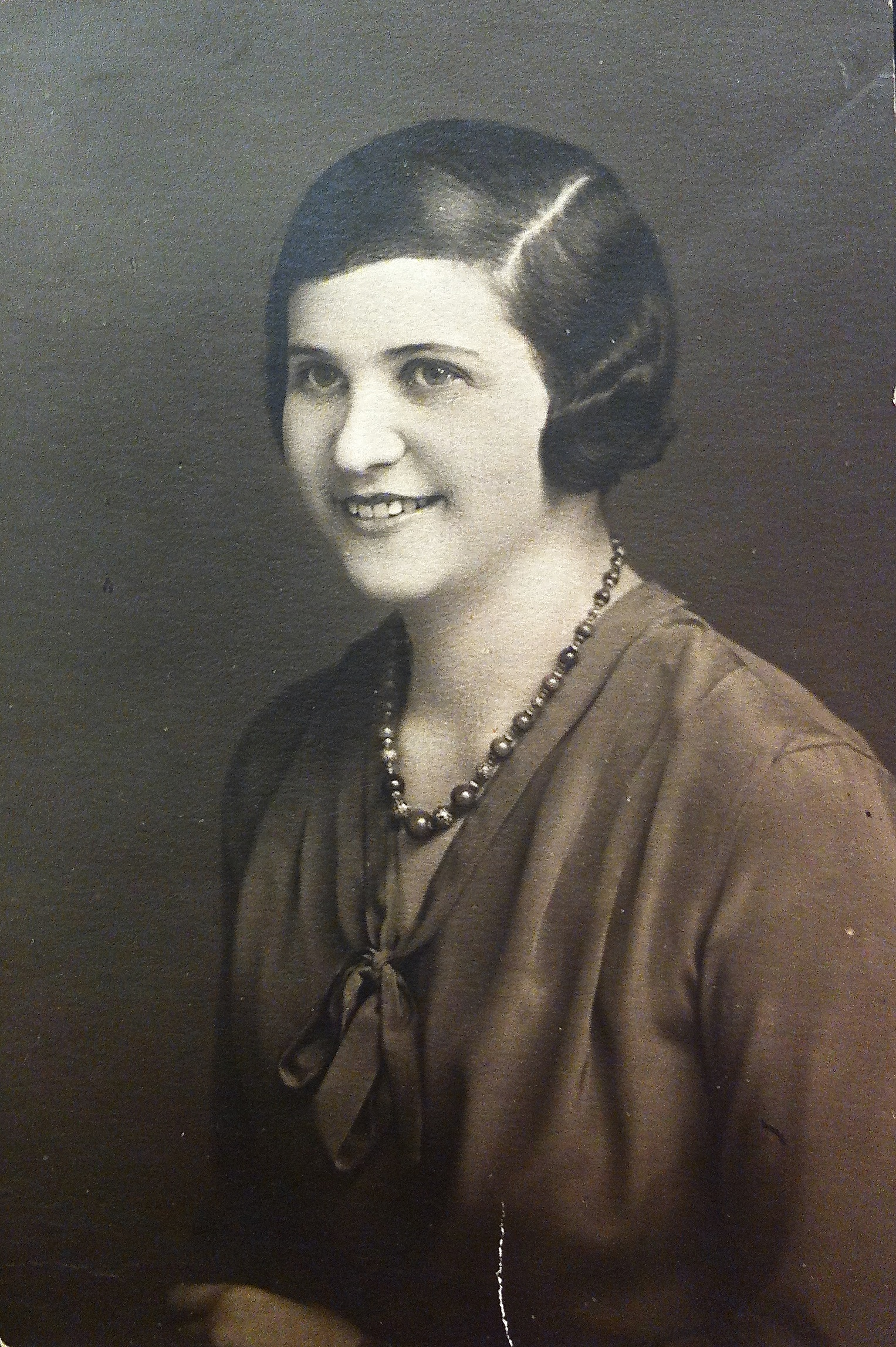 This the picture of Marta Blatt, the spouse of Nicolae Blatt. The picture was taken in 1930, the year of their marriage. Other information